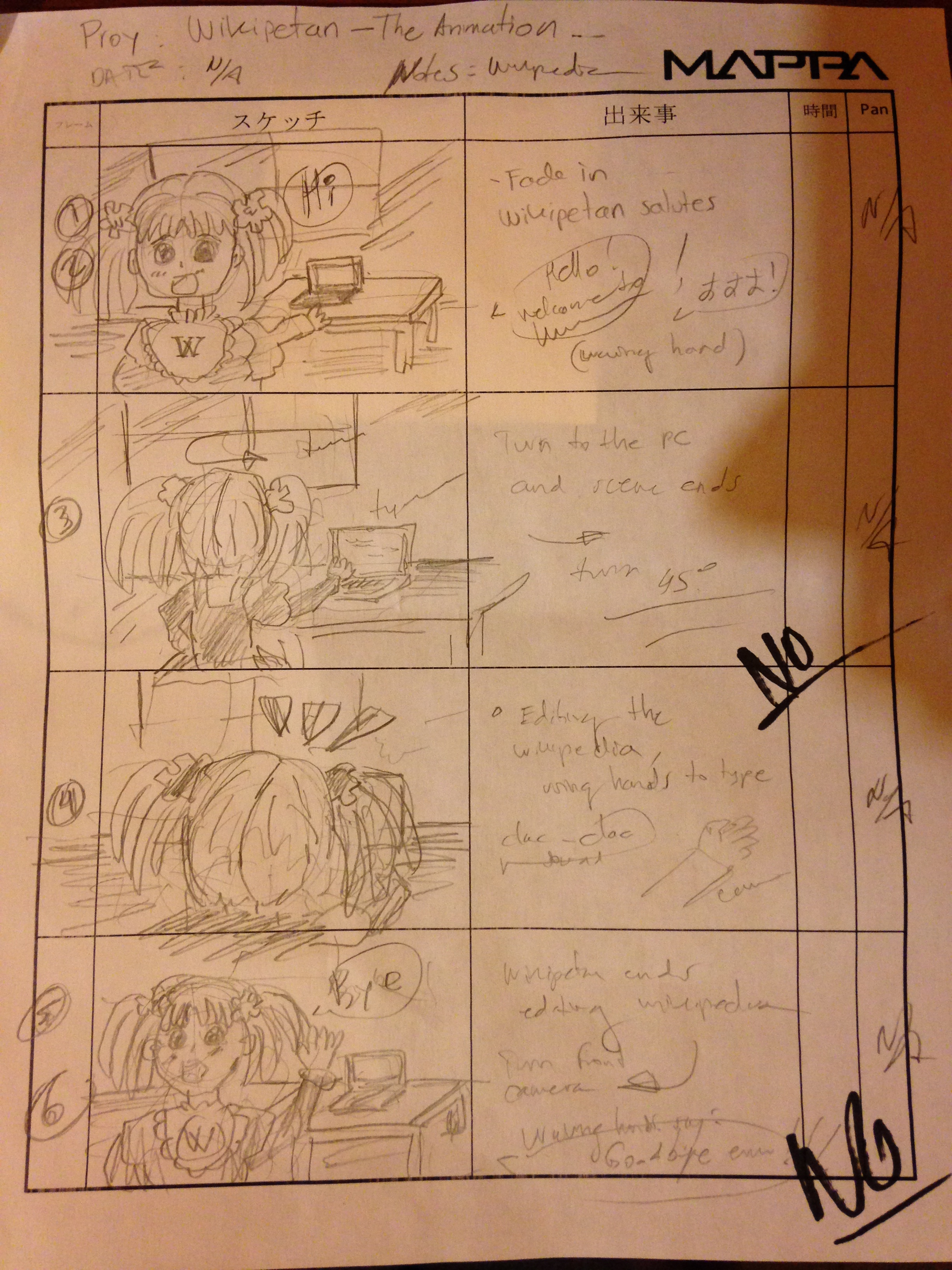 A page of a storyboard, a little notebook made for draw the general idea and indications of a animation or a movie. This is only a example, storyboards can be different in other productions or studios.